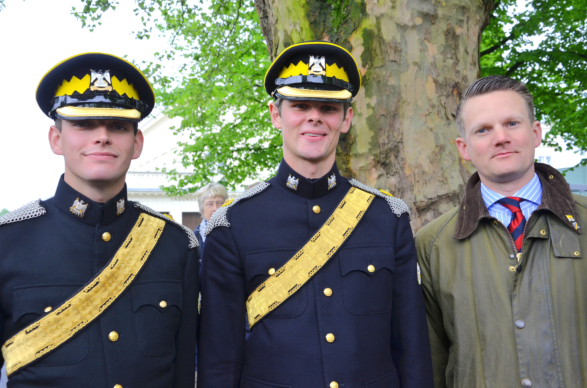 From The Royal Scots Dragoon Guards appeared 2nd Lt. Edward Mitchell as well as 2nd Lt. Alex Stewart , accompanied by the liaison-officer of the Germany Bundeswehr, Major i.G. Christoph Kahnert from the Panzerlehrbrigade 9 ... and Major i.G.